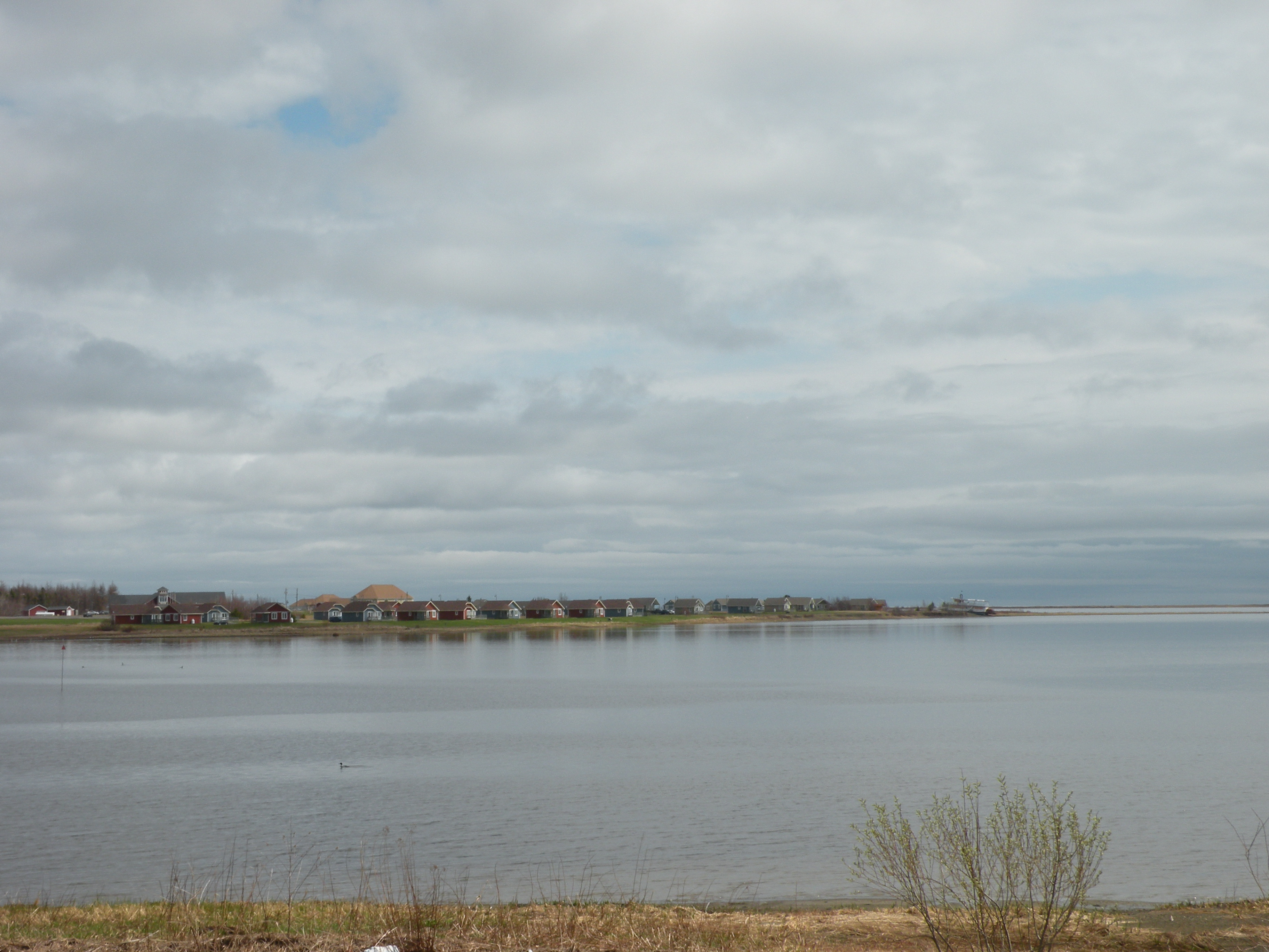 The Deux Rivières resort in Tracadie-Sheila, New Brunswick.